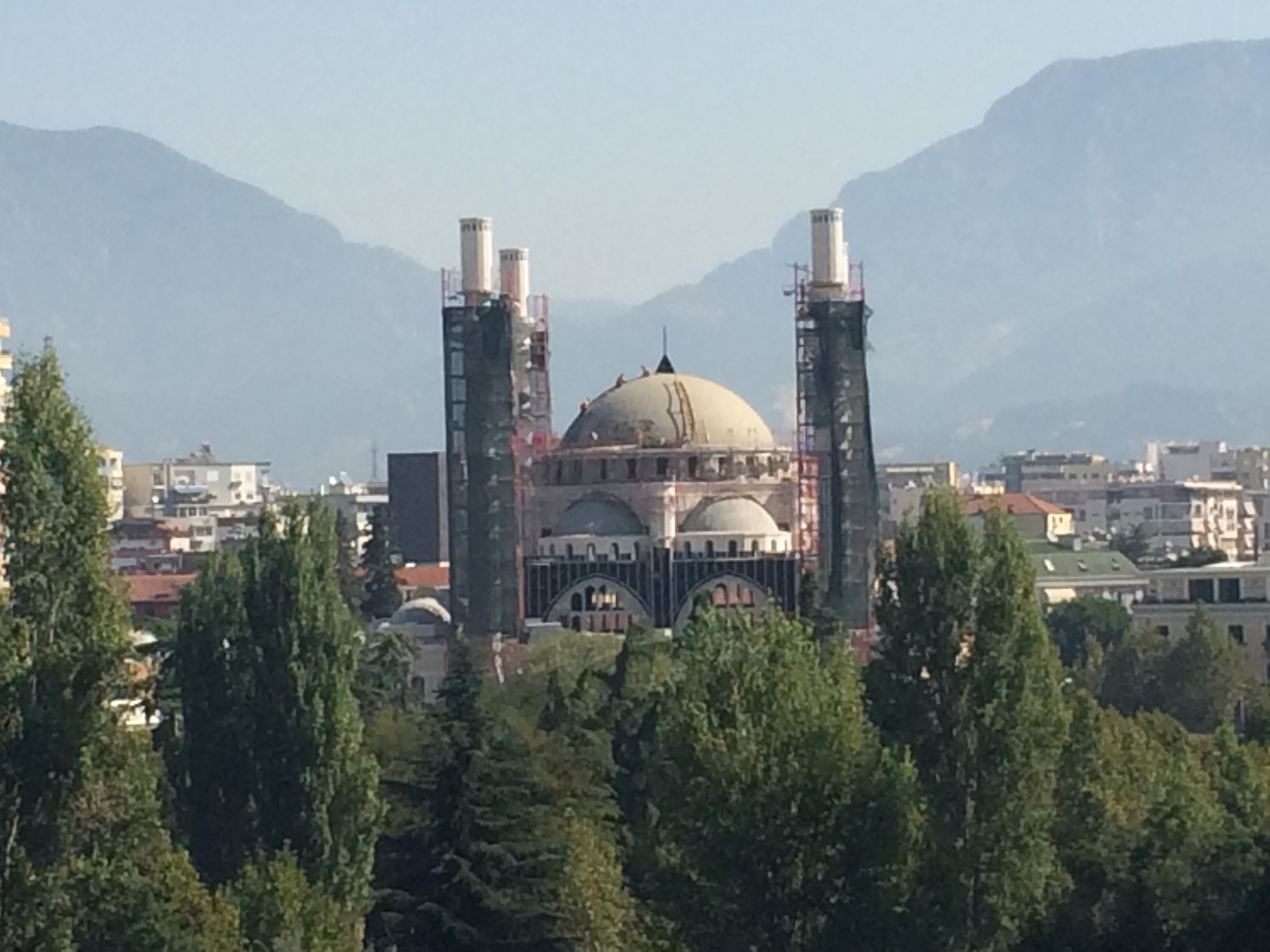 Great Mosque of Tirana construction as of August 2017, picture taken from the Pyramide of Tirana